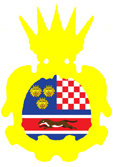 Coat of arms of Croatia, Dalmatia and Slavonia 1624, first unified CoA of Croatia, Dalmatia and Slavonia which is used from 1624. Introduced by Croatian, Dalmatian and Slavonian Ban Toma Erdody